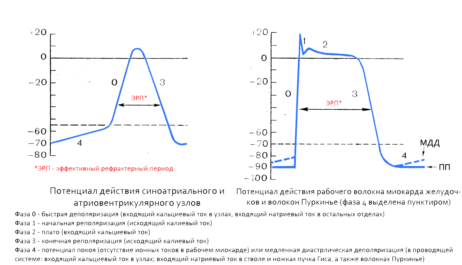 Action potentials of nodes and ventricular myocardium